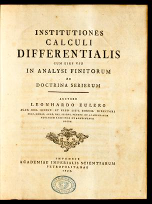 Scan of first page of L. Eulers book Institutiones Calculi Differentialis